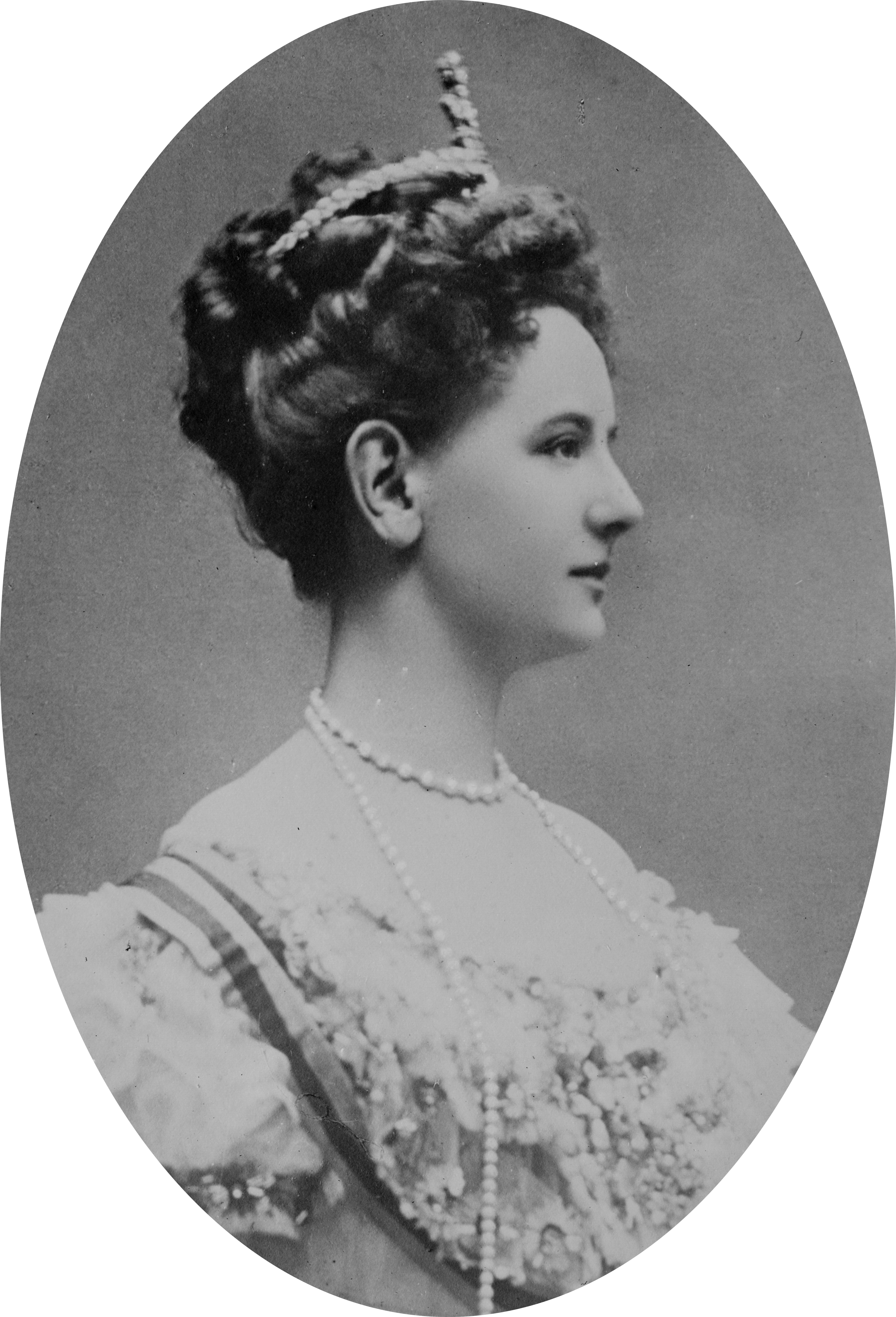 Queen Wilhelmina of the Netherlands.